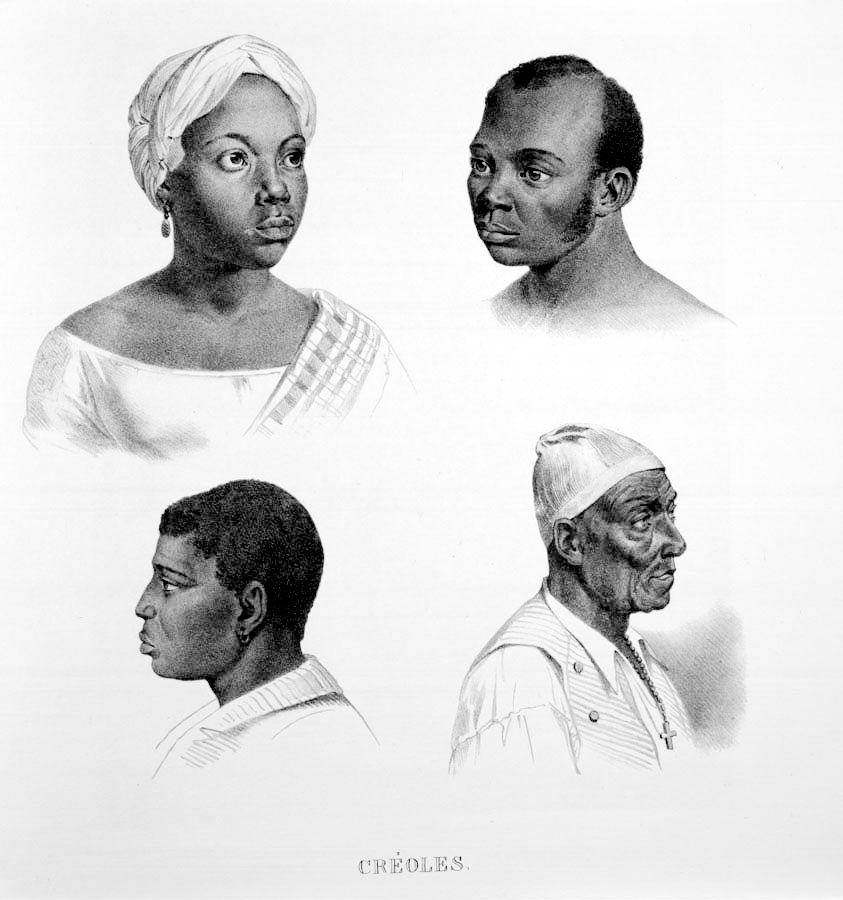 Brazilian-born slaves. Voyage Pittoresque dans le Bresil. Traduit de l'Allemand (Paris, 1835; also published in same year in German). Reprinted in Viagem Pitoresca Através do Brasil (Rio de Janeiro, 1972), and in color from original water colors, in Viagem Pitoresca Através do Brasil (Editora Itatiaia Limitada, Editora da Universidade de Sao Paulo, 1989) [Both 1835 French and German original editions were published in black/white].